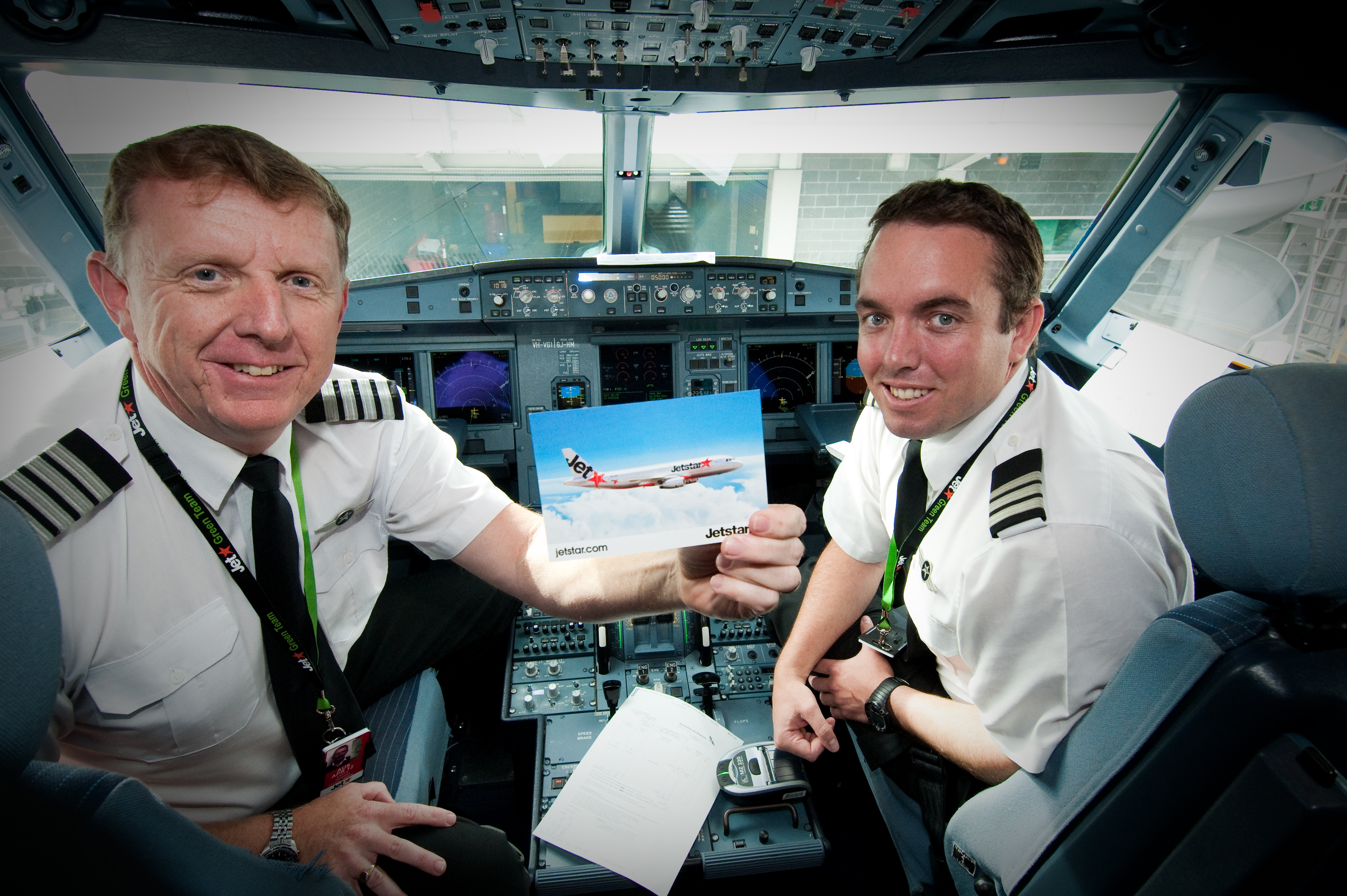 Our pilots on today's JQ705 and JQ706 biofuel flights that flew from Melbourne to Hobart and back. These flights used fuel that is a 50:50 blend of refined recycled cooking oil and conventional jet fuel. The life cycle carbon footprint of this fuel is around 60% smaller than that of regular jet fuel.